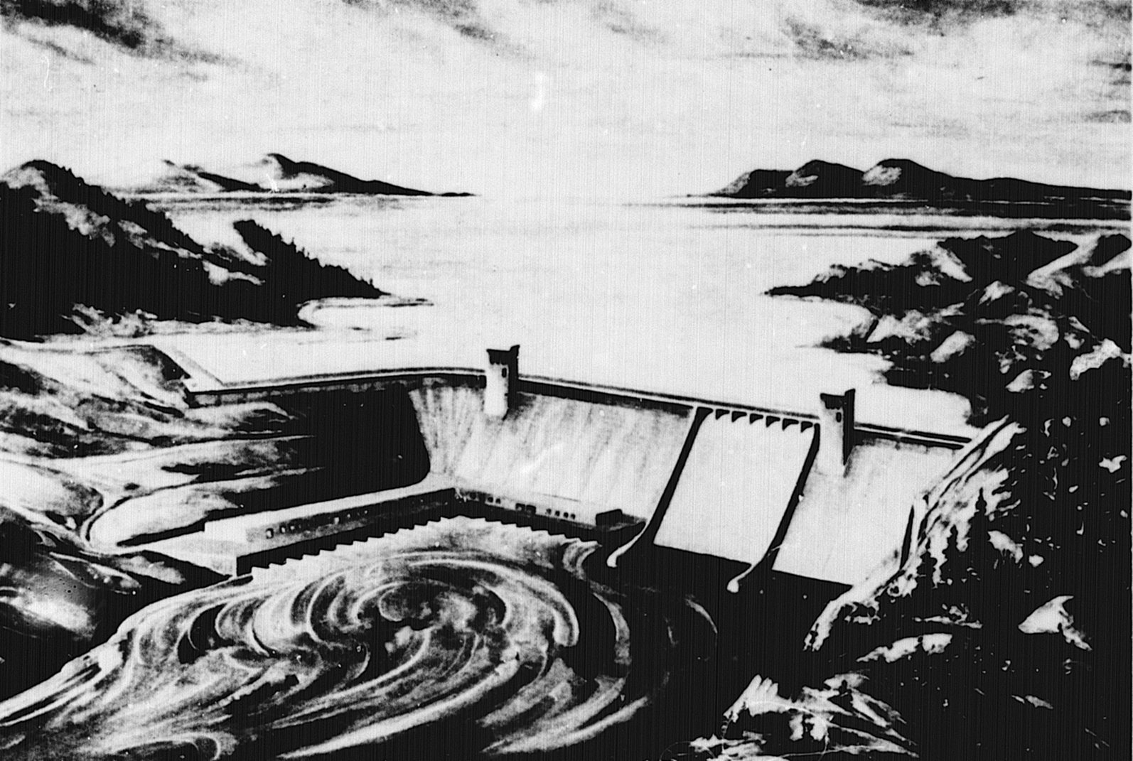 An artist's rendition of the proposed Rampart Canyon Dam on the Yukon River, taken from a microcard reproduction of the U.S. Army Corps of Engineers report on the project.